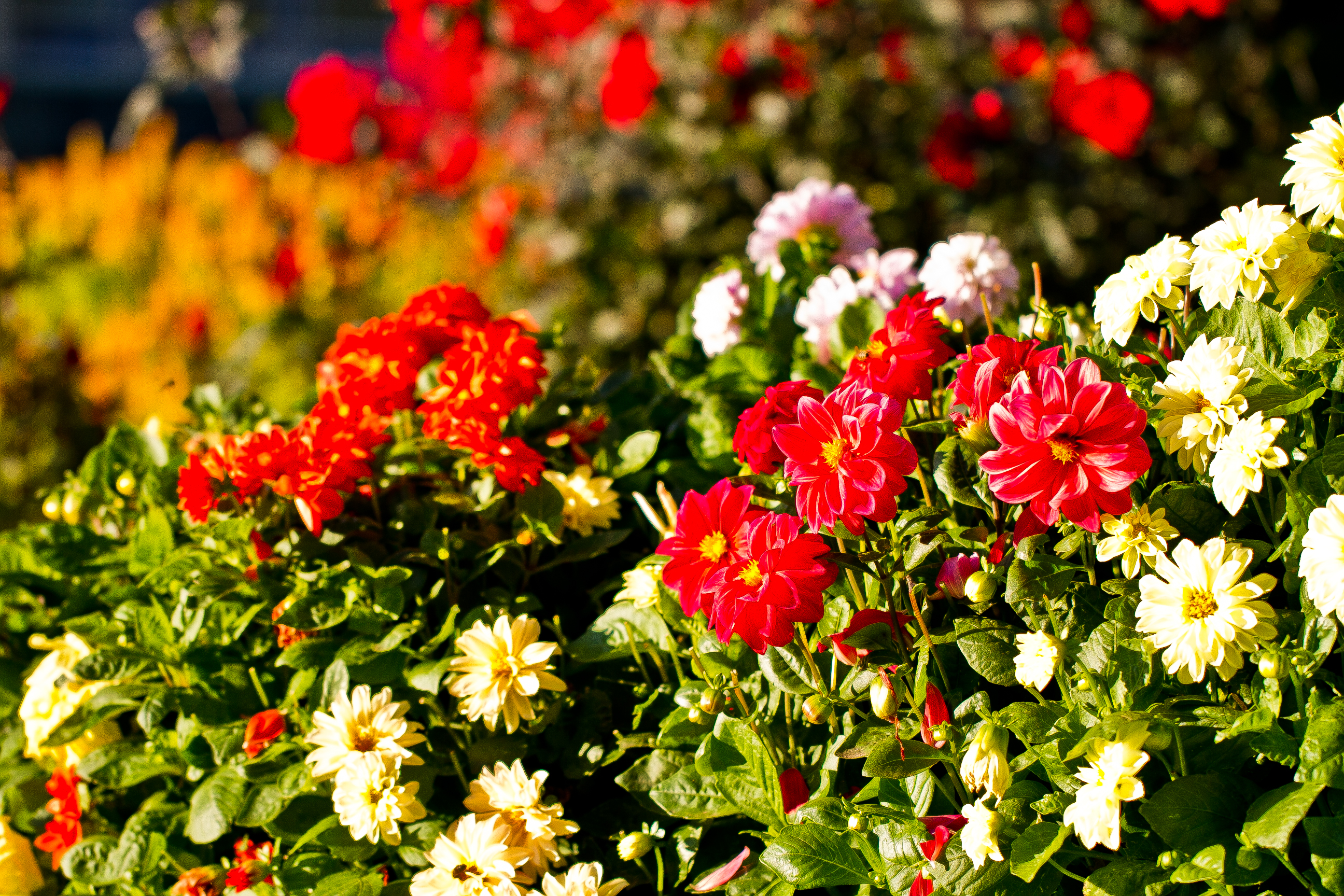 Flowesr at Ballarat botanical garden